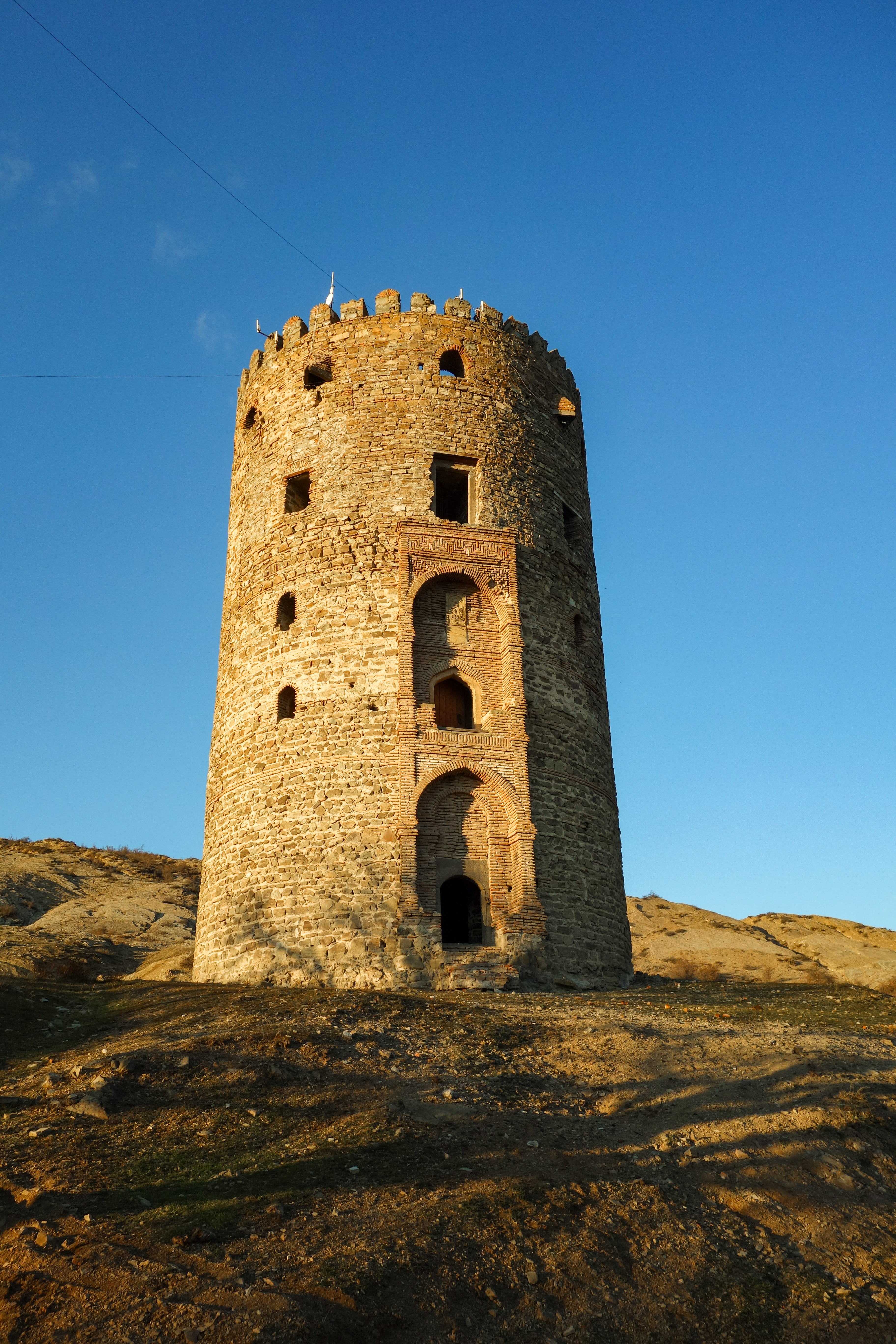 Tower "Salkhino" in Vashlovani village, Kvemo Kartli, Georgia